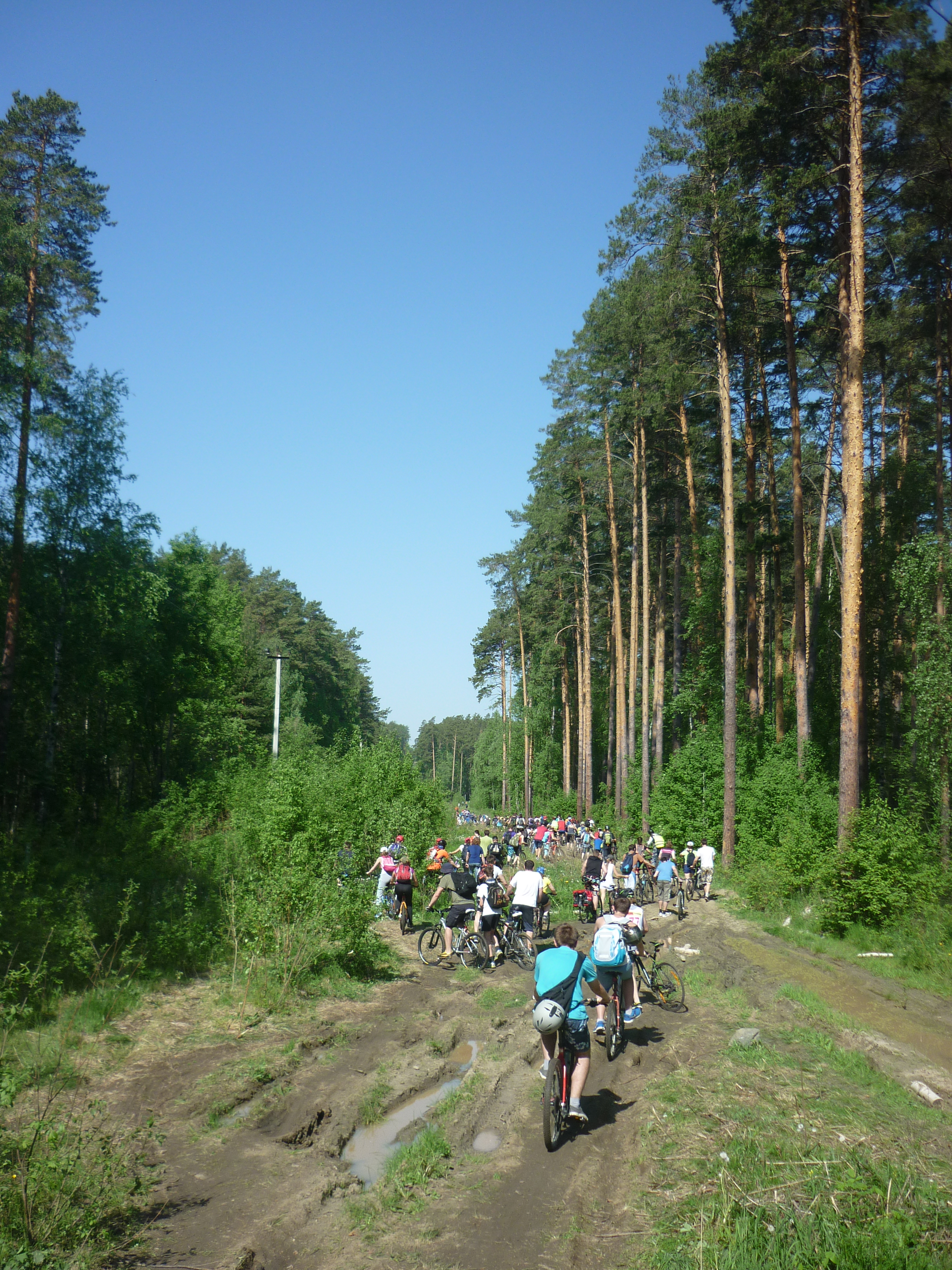 A 30-km bicycle ride on 31 May 2015 in Yekaterinburg, part of the annual May Walk event held since 1984